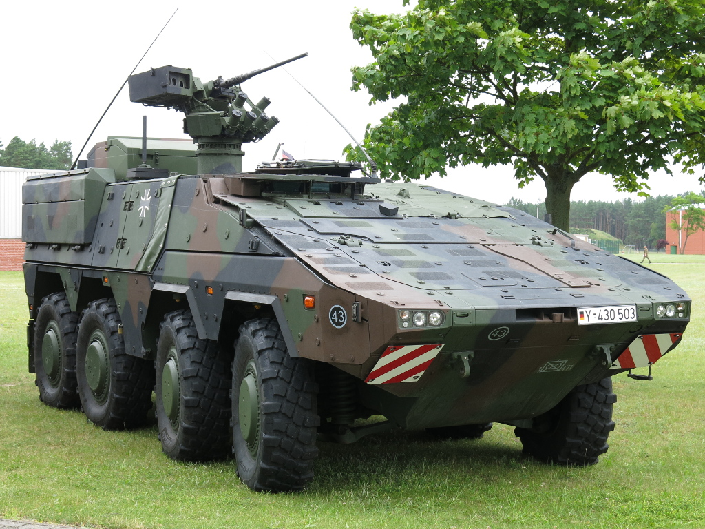 AFW Boxer commando post variant fitted with a FLW 200 RWS, Open day Panzergrenadierbataillon 411, Viereck 2017